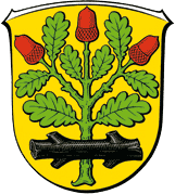 Coat of Arms of Langen (Hessen)